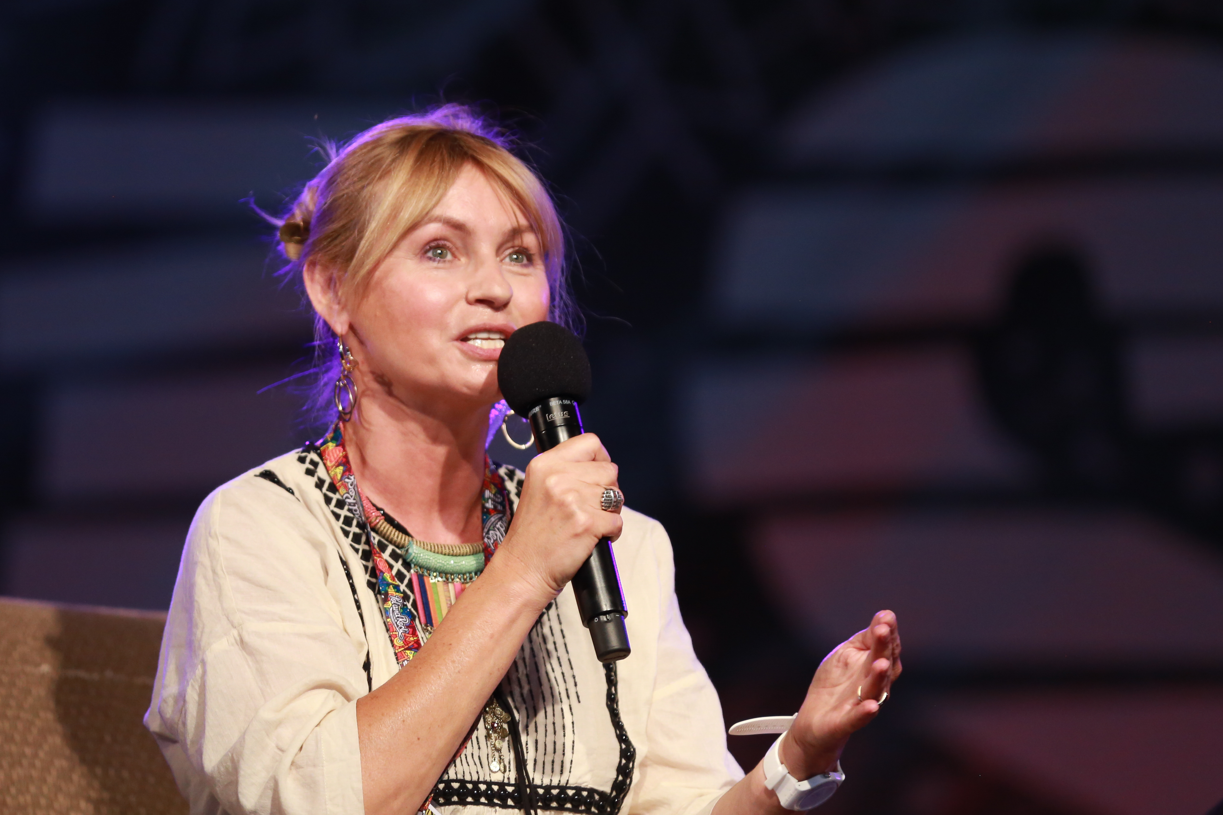 Przystanek Woodstock in 2018.